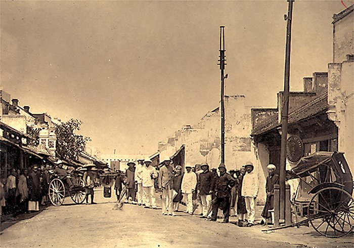 Phố hàng Gai